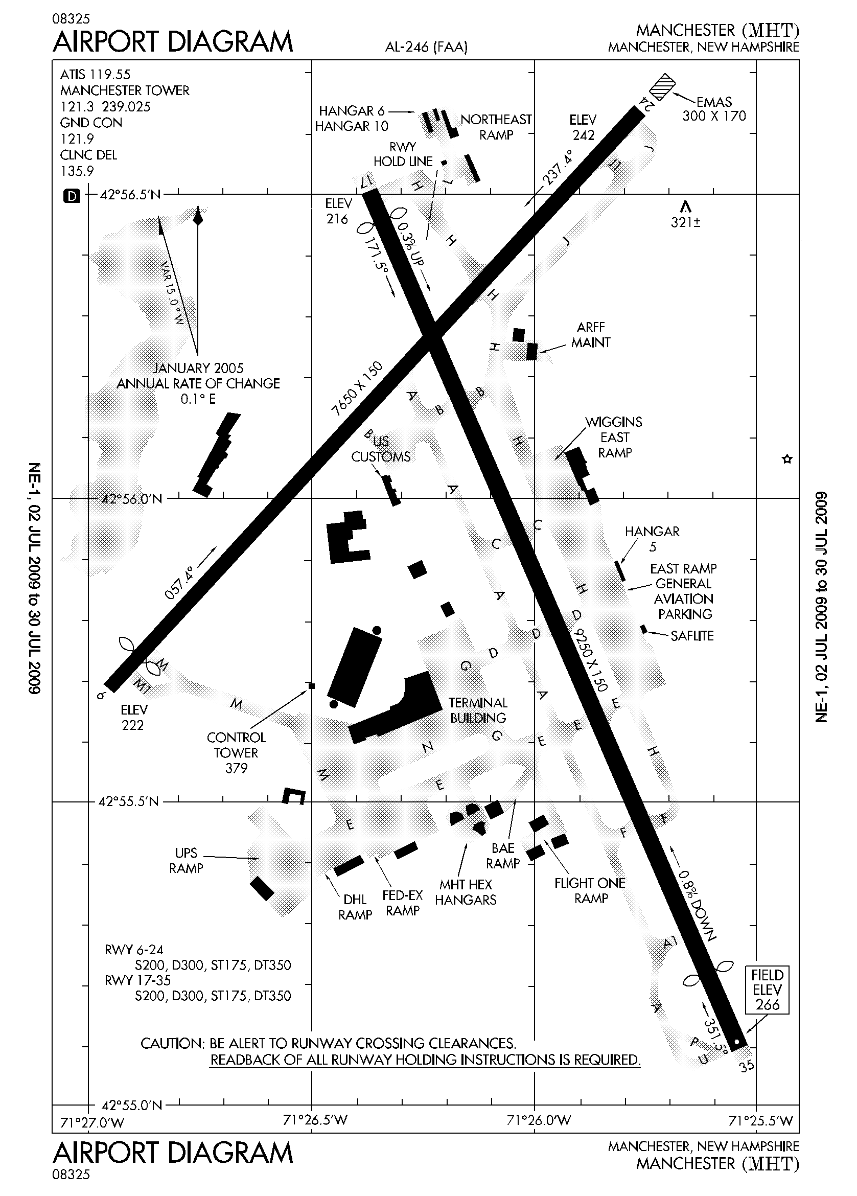 Manchester airport diagram